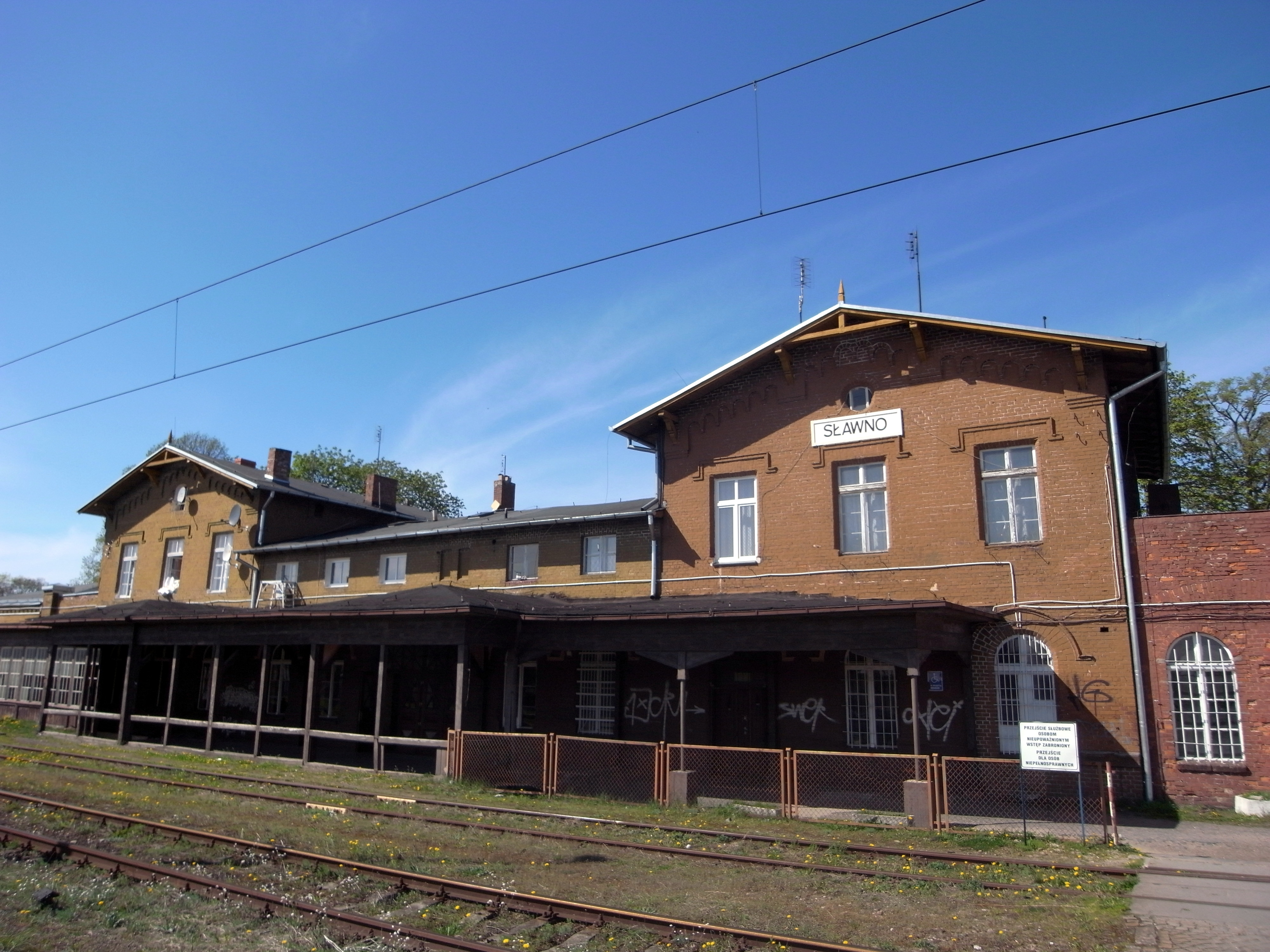 Sławno. Main building of a railway station from 1869. View from platforms.